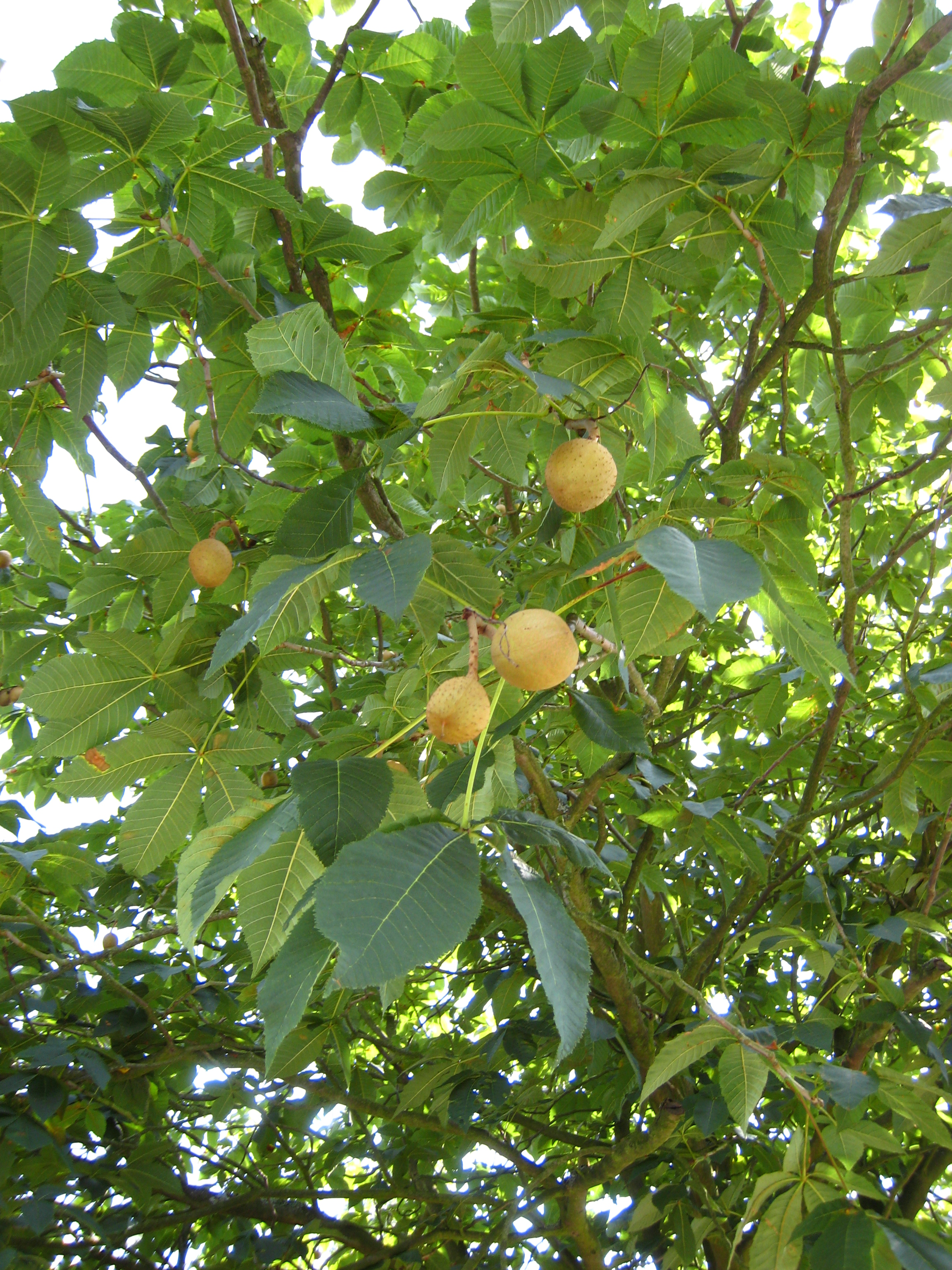 Aesculus × carnea 'brioti' Hayne (=Aesculus hippocastaneum × Aesculus pavia) fruit in the Arboretum de Chèvreloup in Rocquencourt.